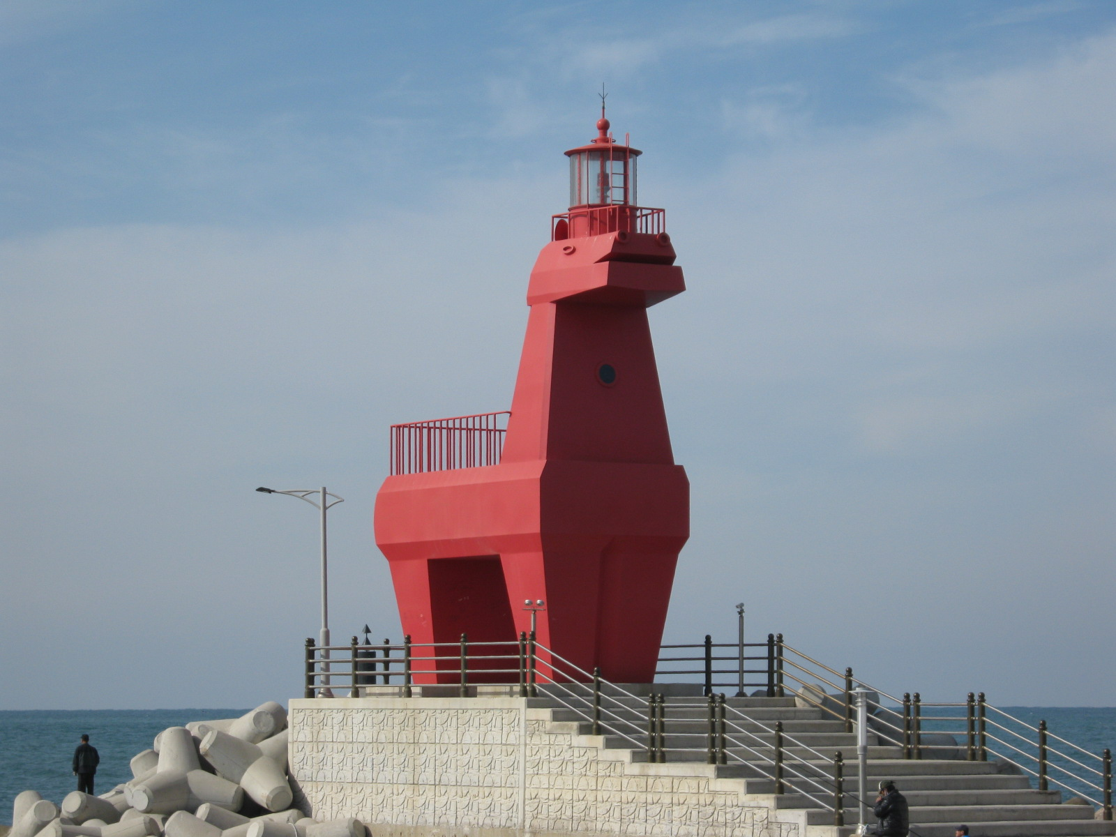 West Breakwater Light, Iho Hang, Jeju City, South Korea. 12 m (39 ft) concrete tower, built in the shape of a horse with the lantern on its head.